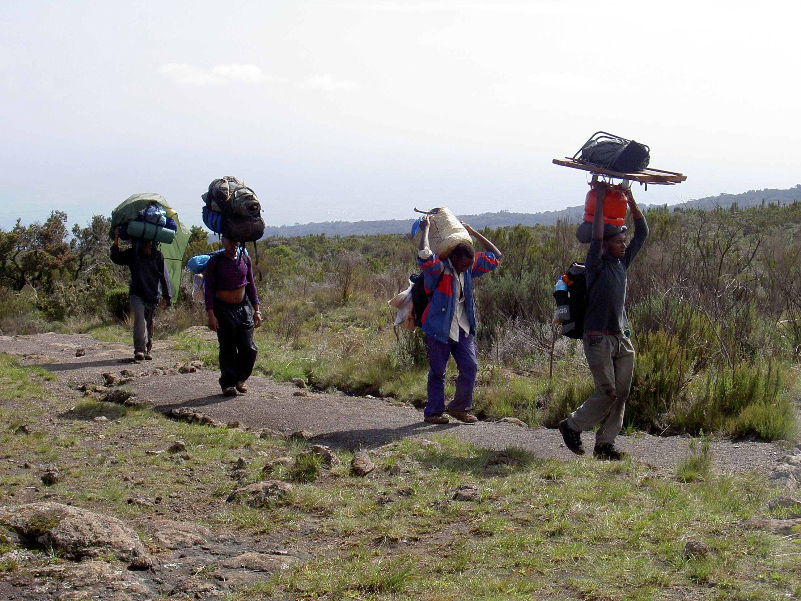 Carrying loads on the head toward Mt Kilimanjaro.